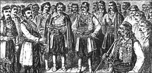 Assembly of Montenegrin chieftains on Cetinje.